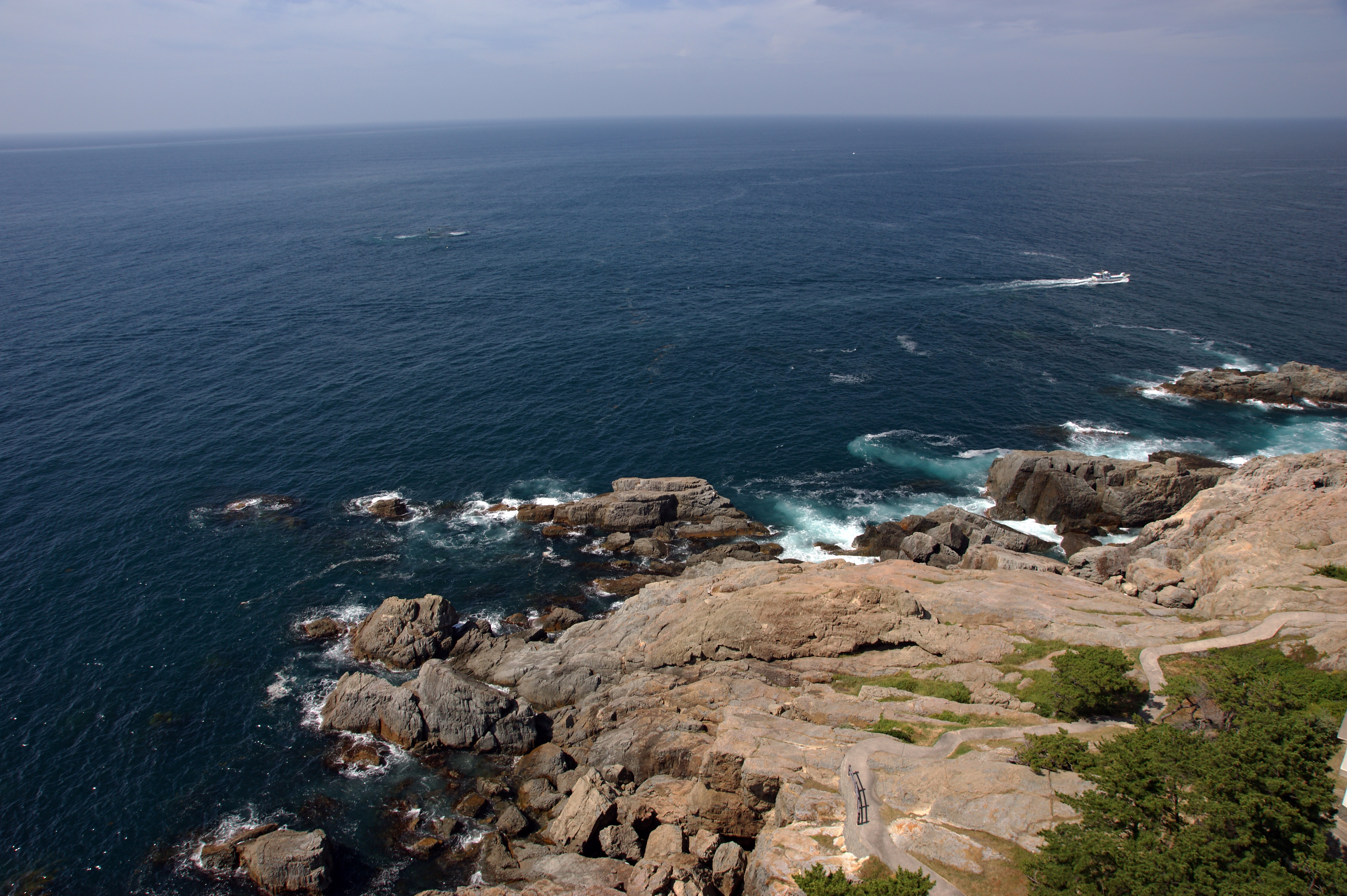 Cape Hinomisaki in Izumo, Shimane prefecture, Japan